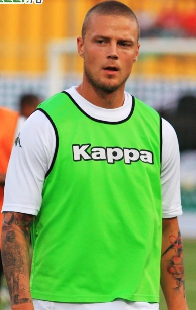 Ragnar Sigurðsson